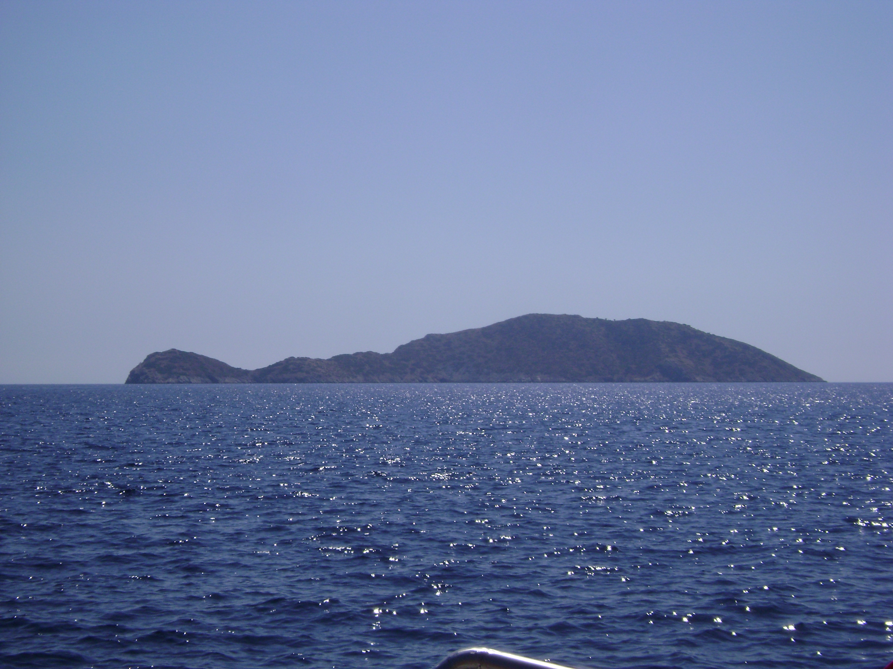 This is a photography of Natura 2000 protected area with ID GR1430005